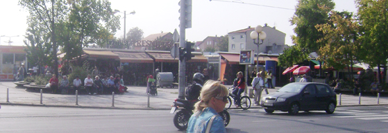 photo of tresnjevacki squer